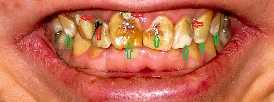 A severe case of dental fluorosis in an adult male with dental caries also present. Green arrows point to fluorosis and red arrows to caries.